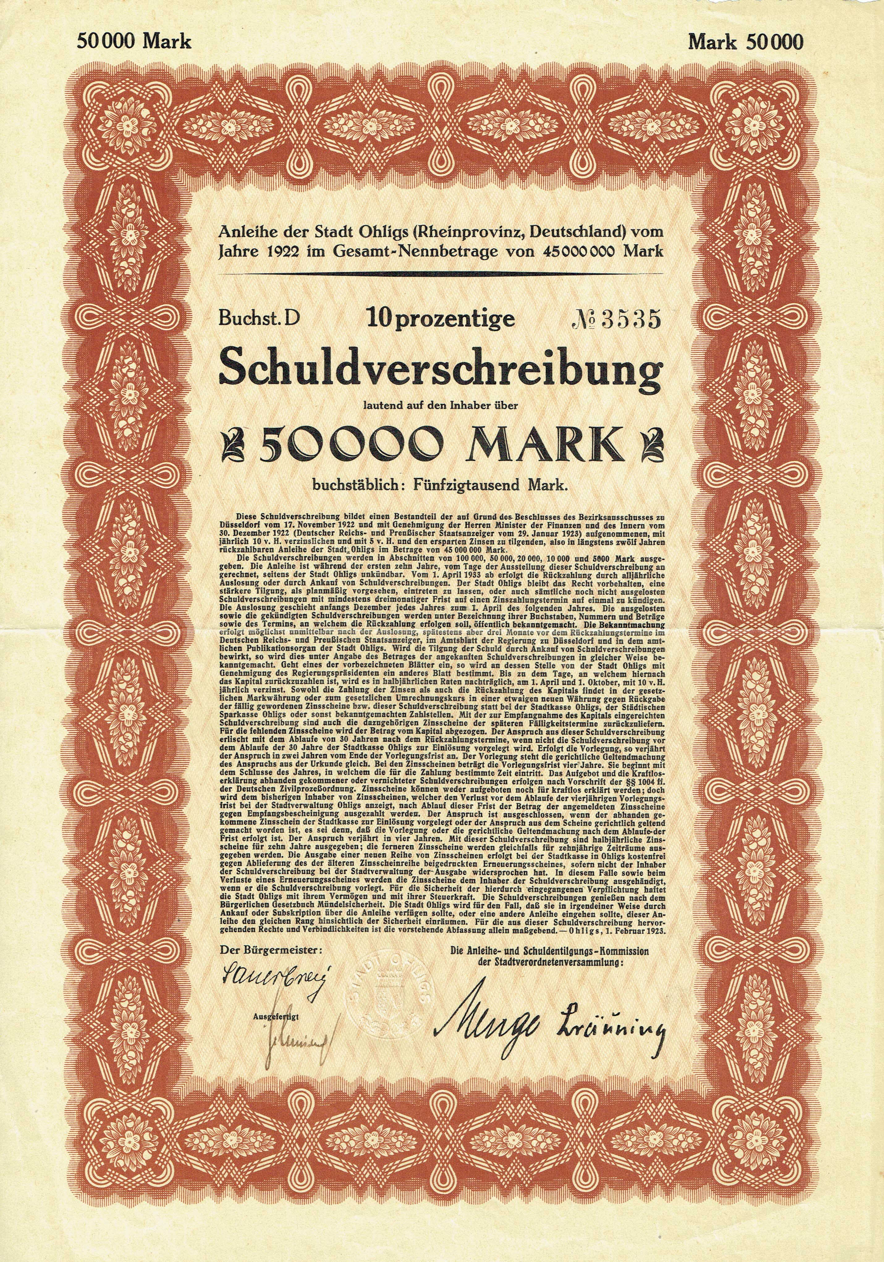 Bond of the City of Ohligs, issued 1. February 1923